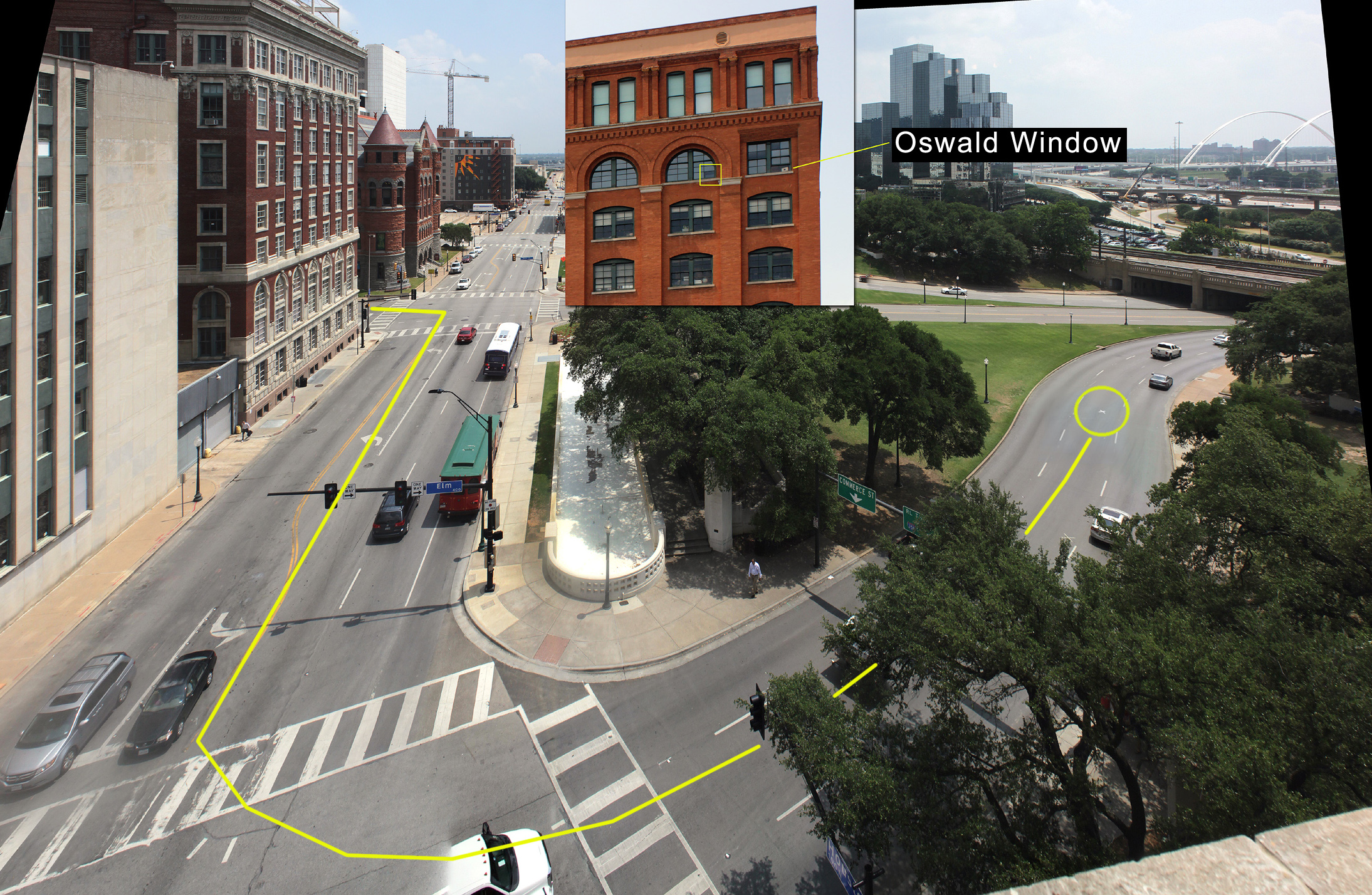 This is a view from the window next over from Oswald's shooting position.